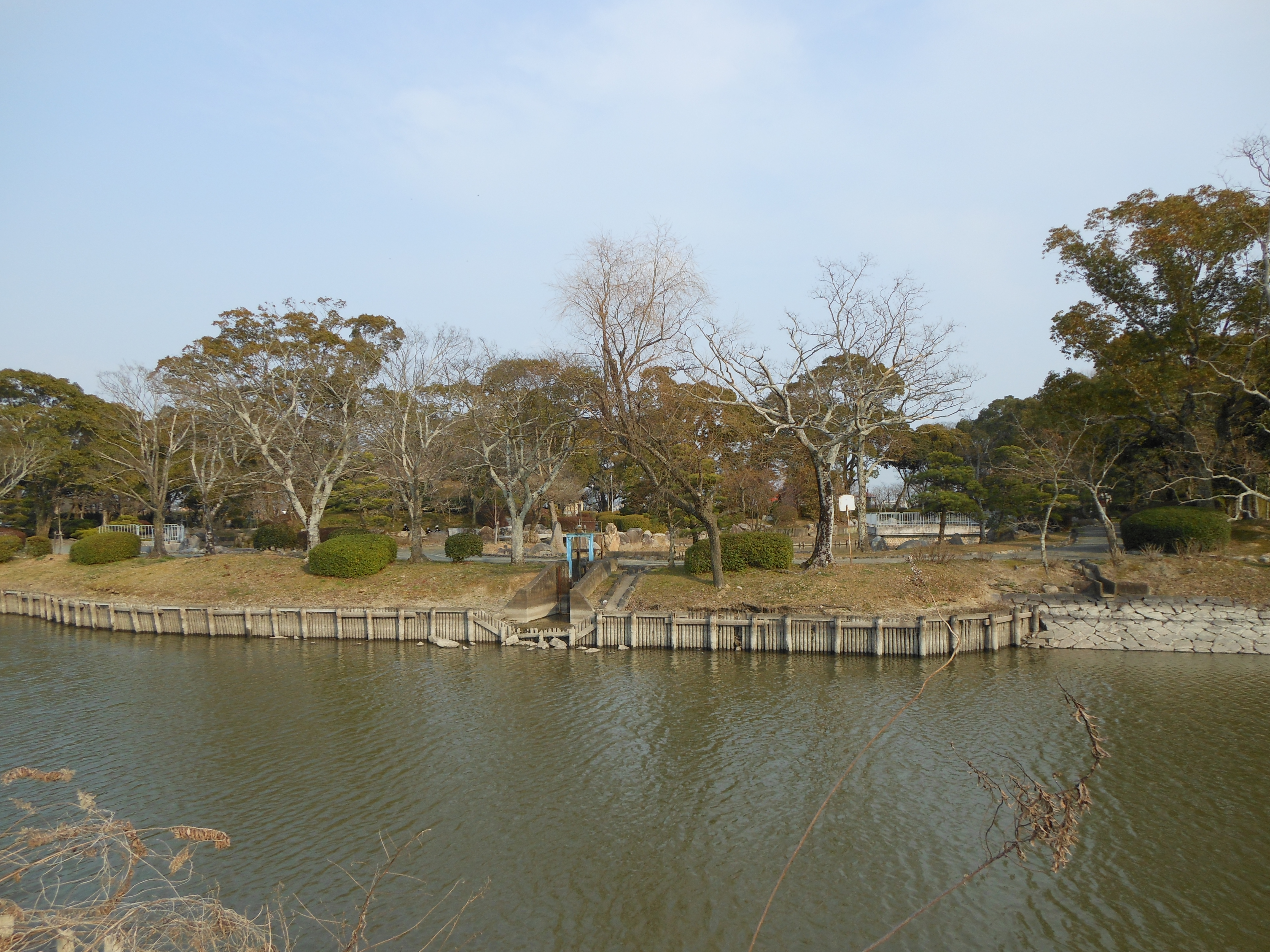 Hasuike Park and Hasuike Castle Ruins, in Morodomi, Saga City.